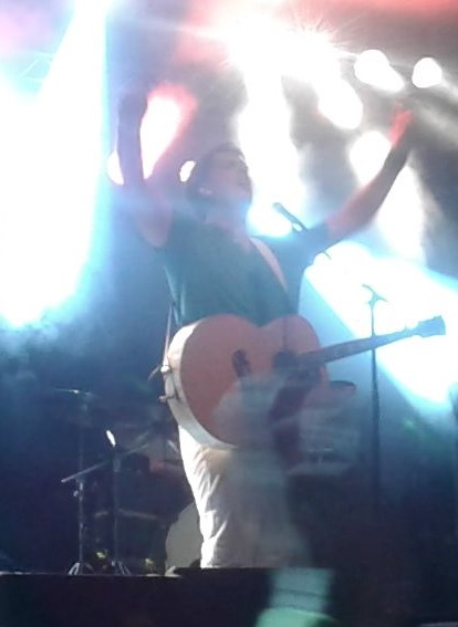 Belgian singer Saule on stage at the Francofolies de Spa in July 2017